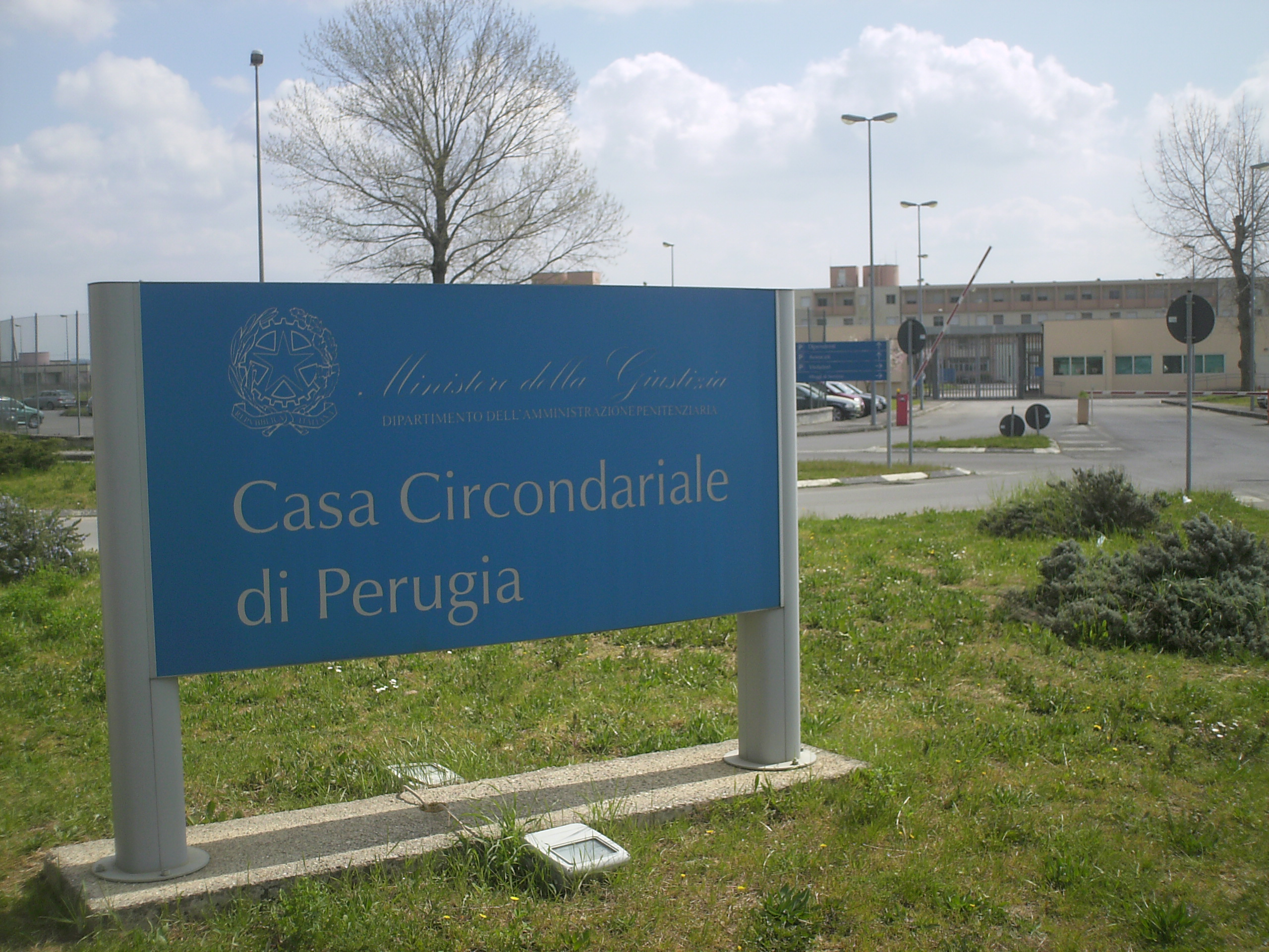 Casa Circondariale di Perugia ("Perugia Correctional House")